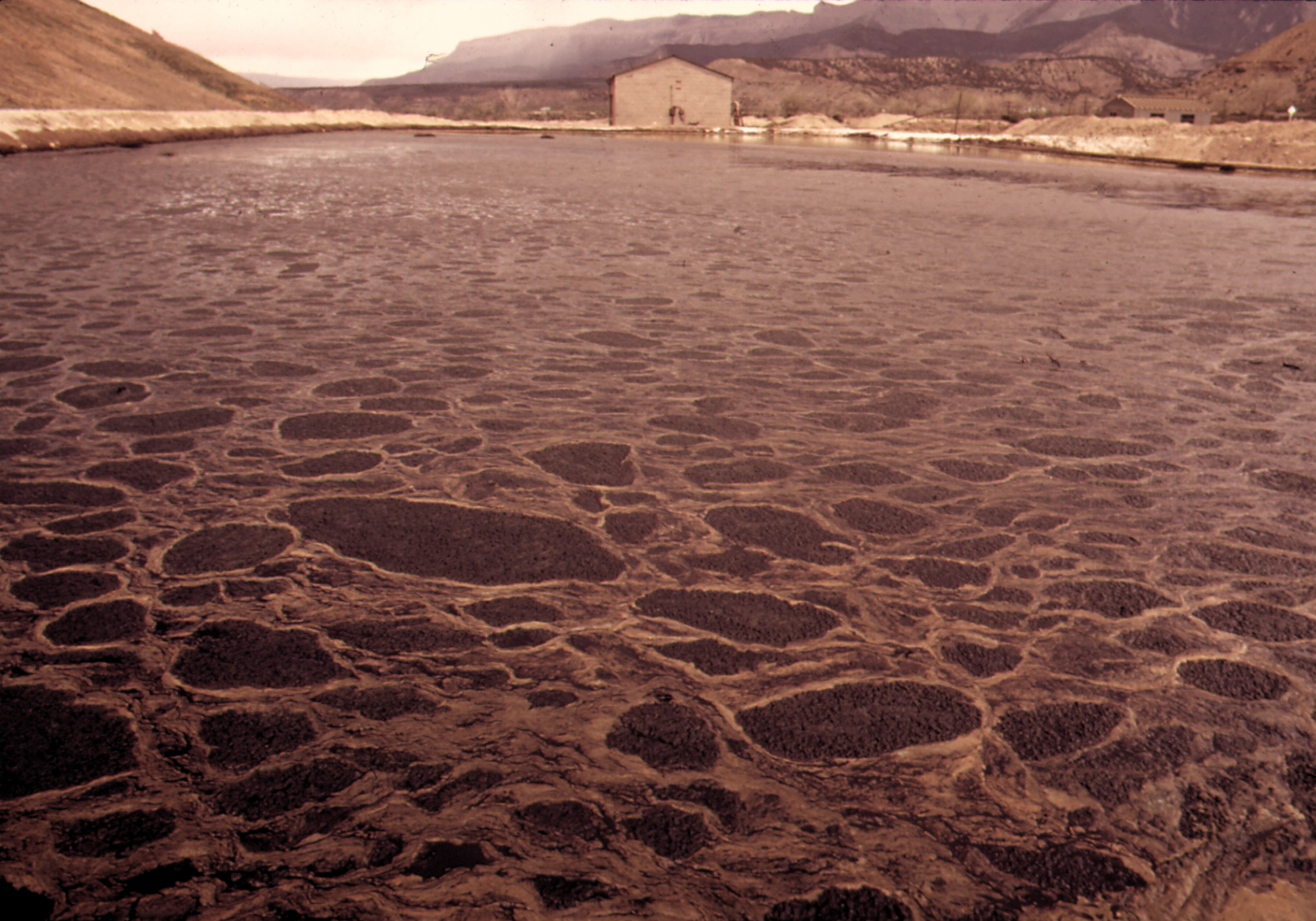 WASTE WATER CONTAINING RADIOACTIVE MATERIALS IS ALLOWED TO SETTLE AT UNION CARBIDE URANIUM MILL